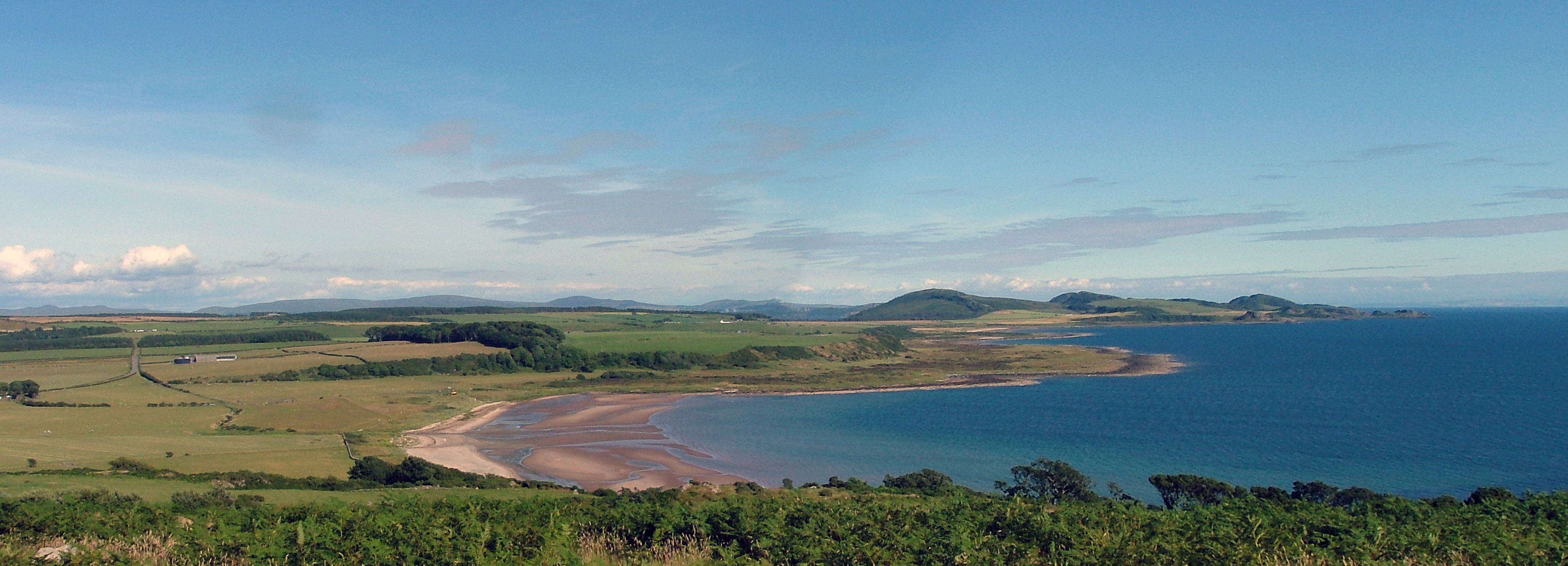 Scalpsie Bay and the west coast of the Isle of Bute photographed from Tarmore Hill. This image is badly stitched just now. I hope to fix this soon.